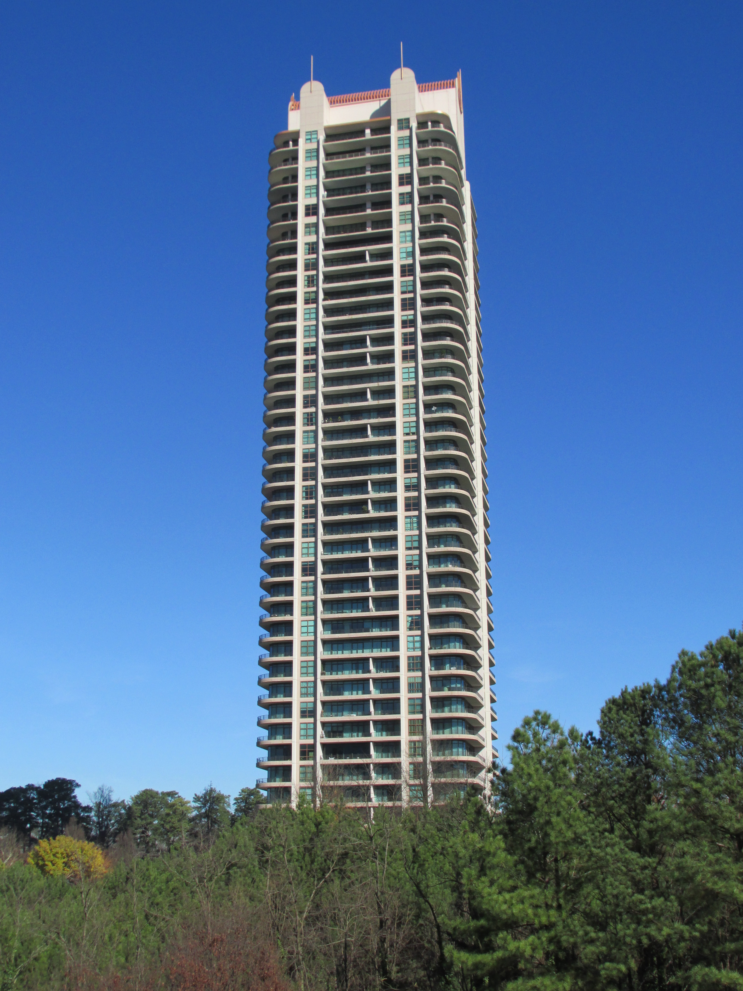 Park Avenue Condominiums, Atlanta Georgia - 2013